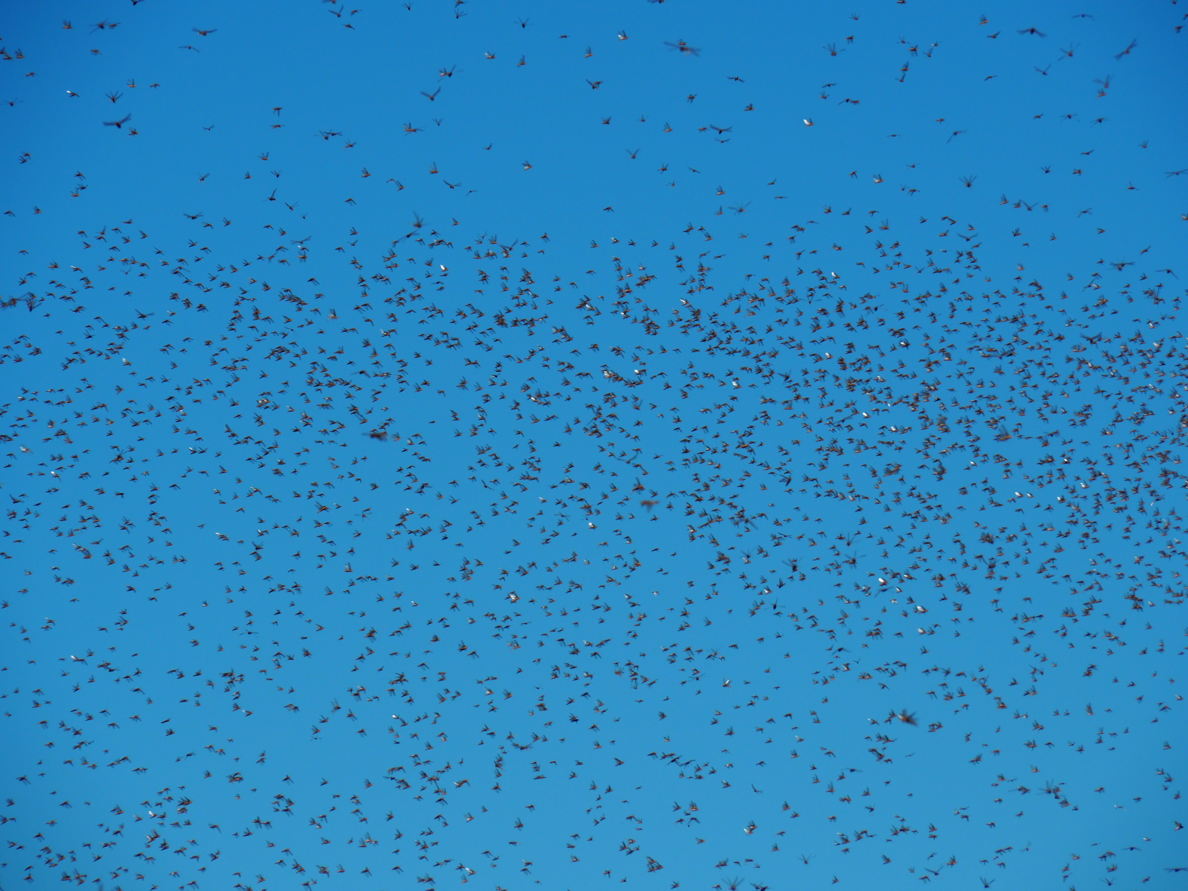 Nuvem de gafanhotos